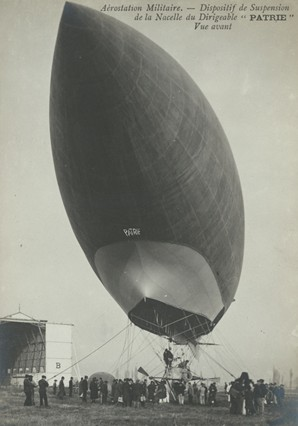 Photograph of French dirigible Patrie 1906